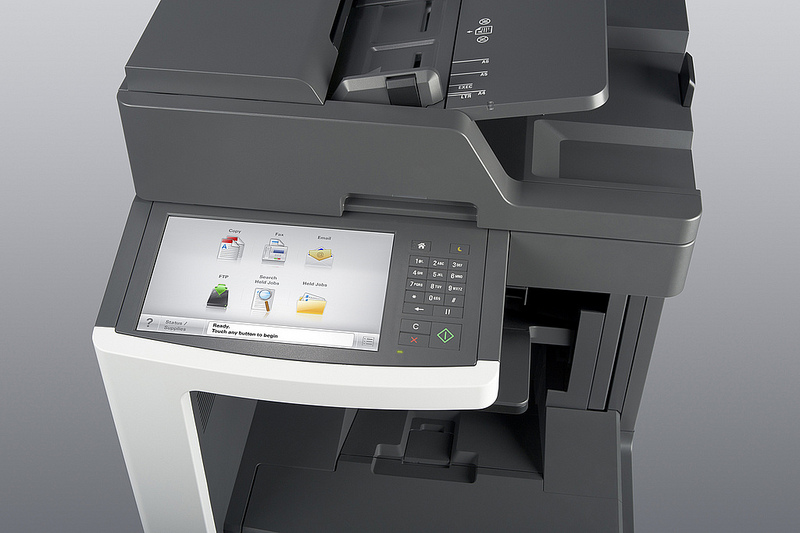 The Lexmark MX812dtfe monochrome laser MFP